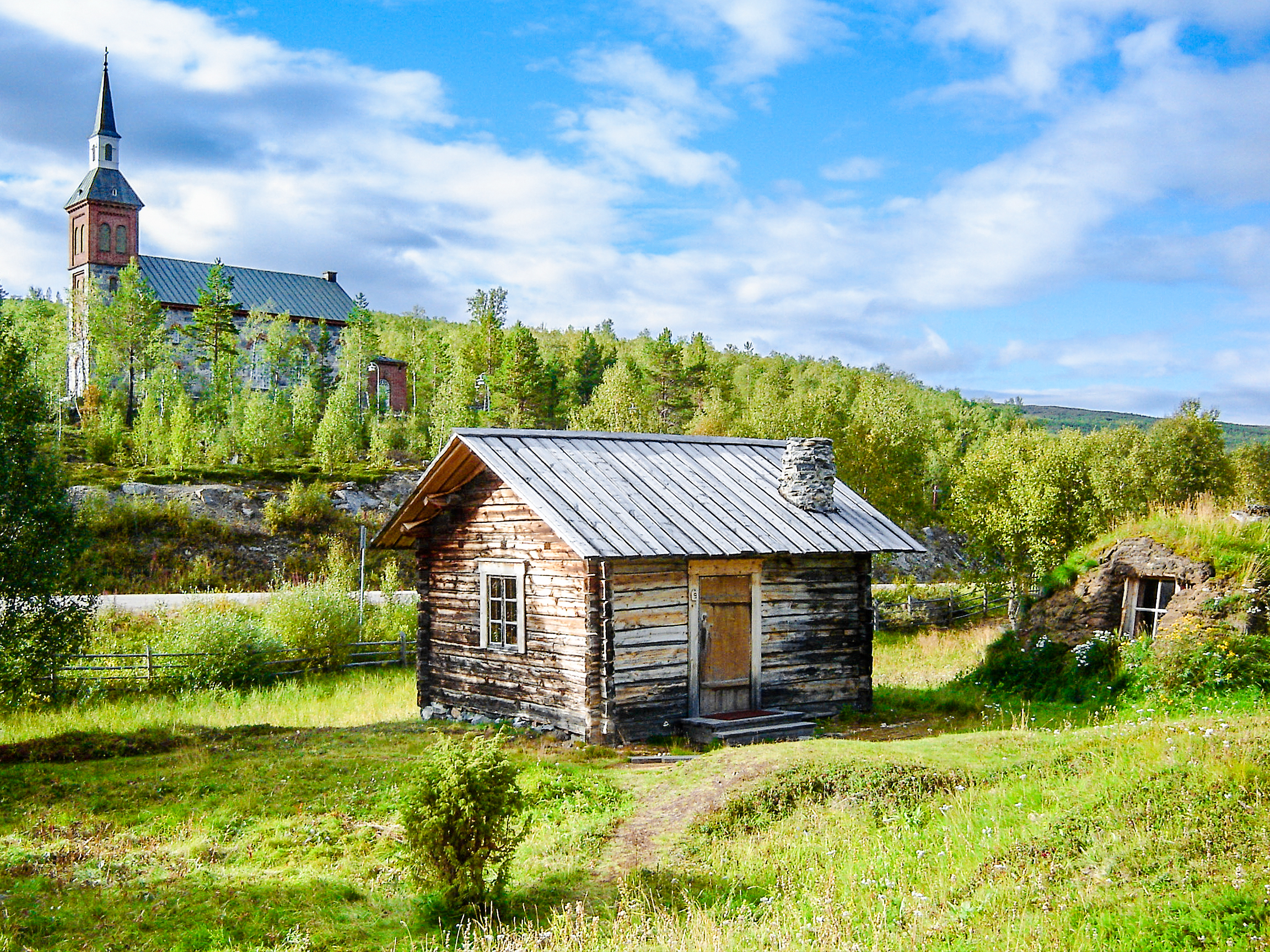 Church and log cabins at Mantojärvi, Utsjoki, Finland